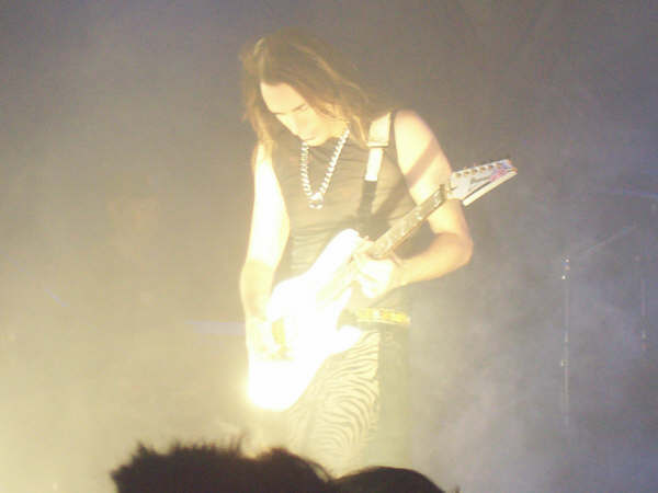 Steve Vai at Saschall (Florence)